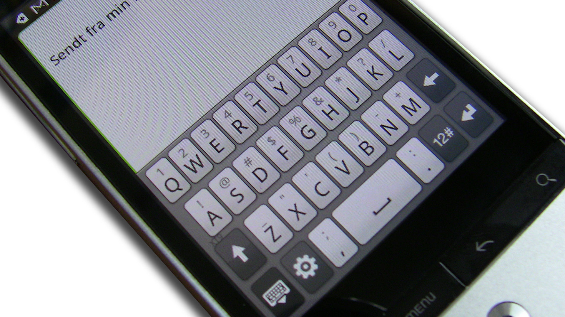 HTC Legend